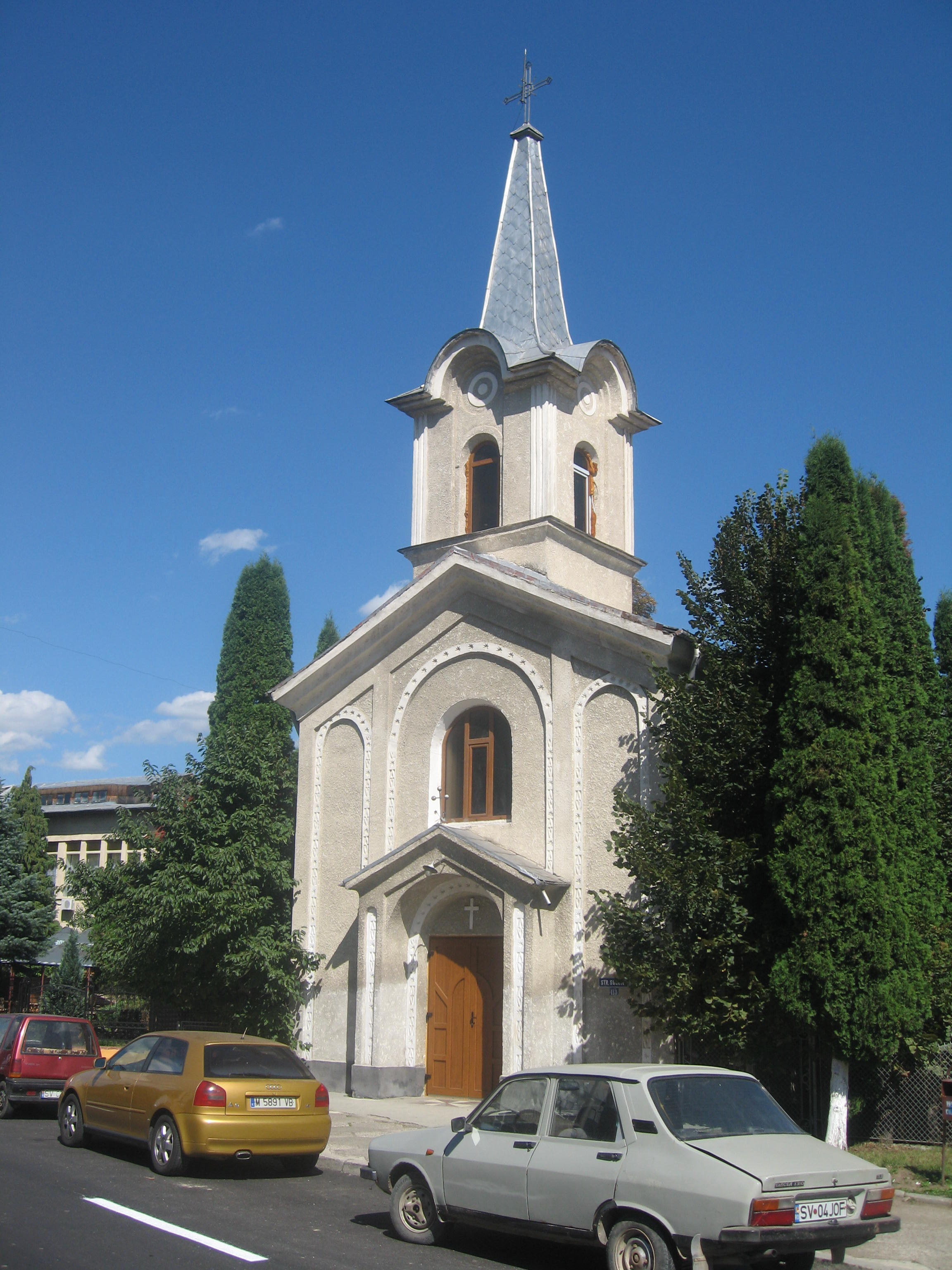 The Roman-Catholic Church in Fălticeni